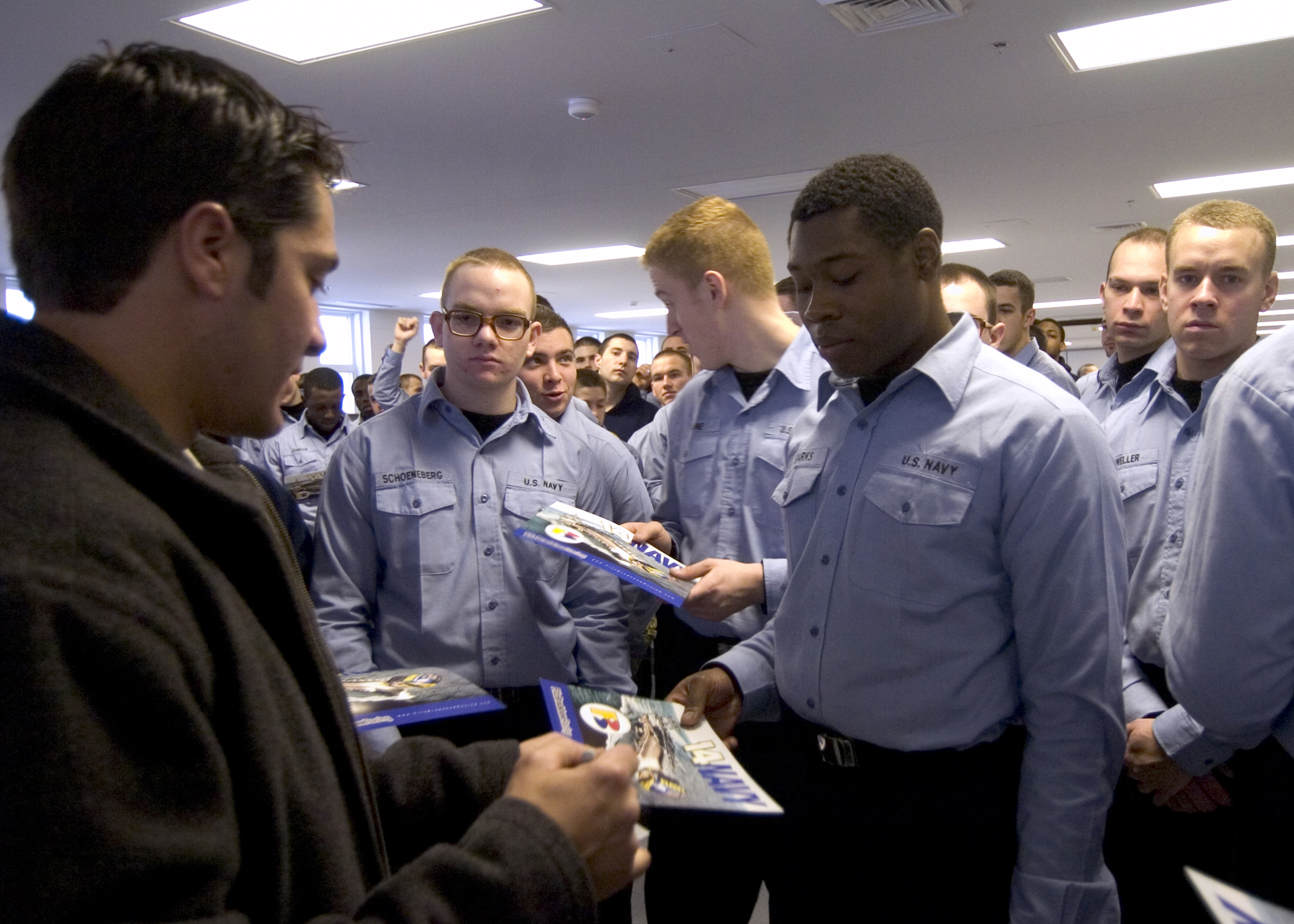 Great Lakes, Ill. (Jan. 13, 2005) – David Stremme, driver for the Navy NASCAR racing team, hands out autographs to recruits at Recruit Training Command’s USS Kearsarge barracks before joining them for lunch. Members of the Navy NASCAR team visited Naval Station Great Lakes to experience recruit training and were the special guests at a recent graduation review. During their visit to Recruit Training Command, the team experienced boot camp evolutions first hand and signed autographs for recruits and A-School students. U.S. Navy photo by Photographer’s Mate 1st Class Michael Worner (RELEASED)